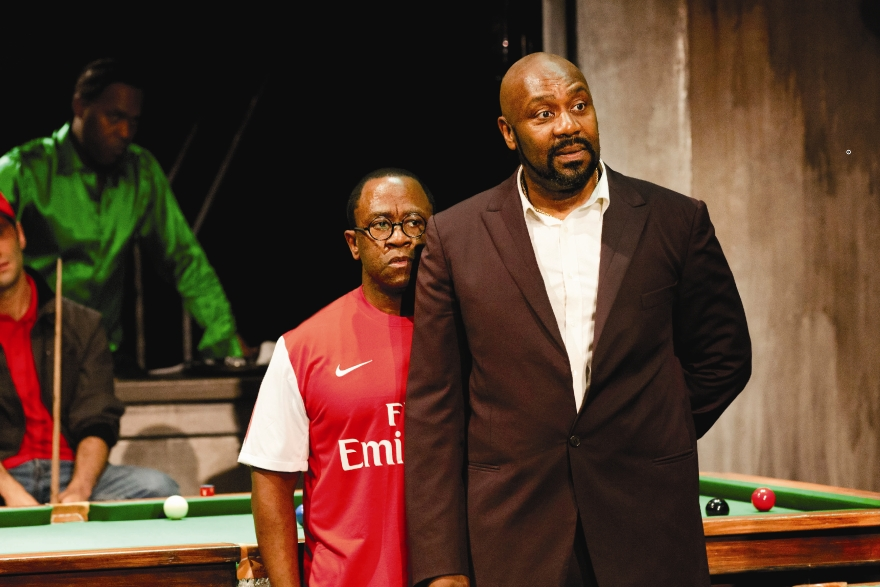 British actor, writer and comedian Lenny Henry (right) and British-Tanzanian actor Lucian Msamati (left) in The Comedy of Errors at the National Theatre in 2011